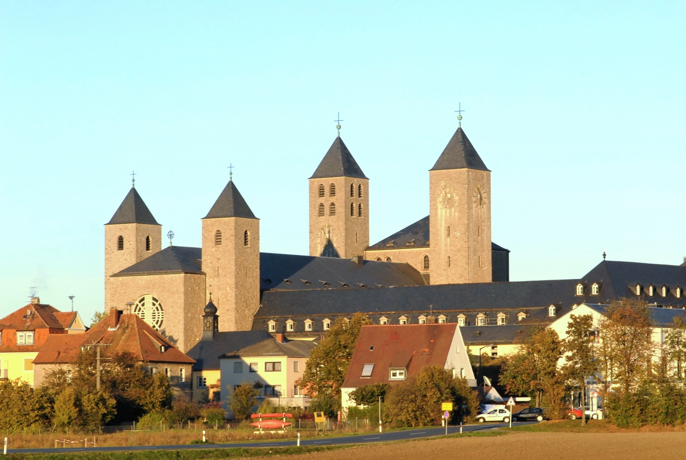 Abbey "Münsterschwarzach"